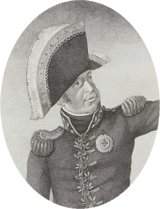 Portrait engraving of Bernardim Freire de Andrada e Castro (1759-1809), Portuguese General during the Peninsular War.